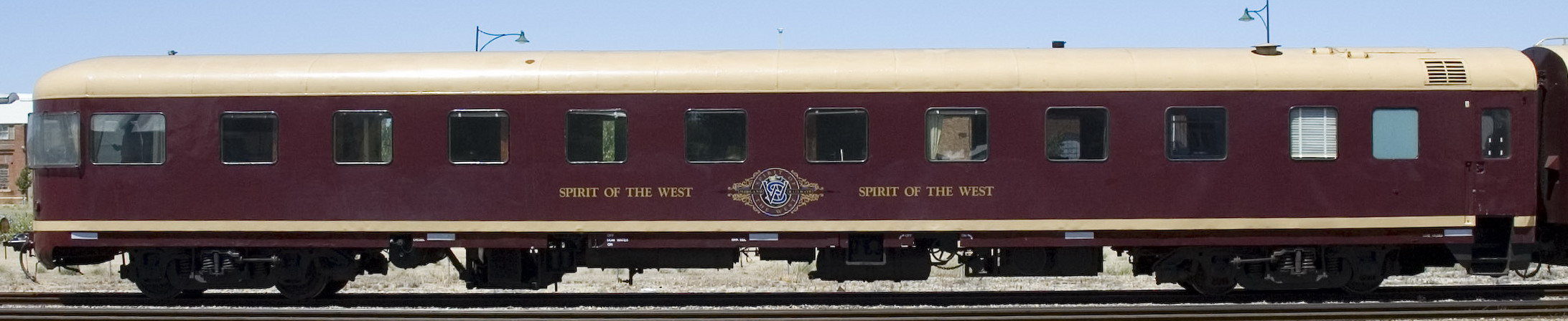 Spirit of the West EI84 - Midland, Western Australia.